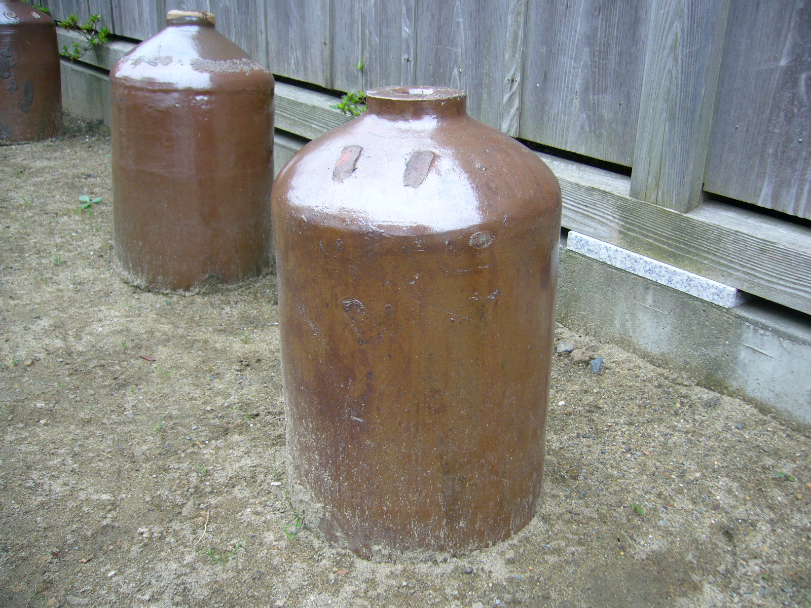 Old Japanese soy sauce jugs in the city of Katori, northern Chiba Prefecture, Japan